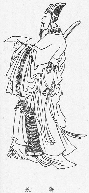 Portrait of the statesman Jiang Wan from a Qing Dynasty edition of The Romance of the Three Kingdoms.